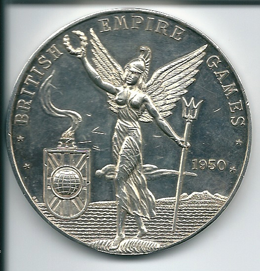 British Empire Games - 1950 - Silver Medal. Scanned image of medal for use in Wiki page Edwin Smith (rower)